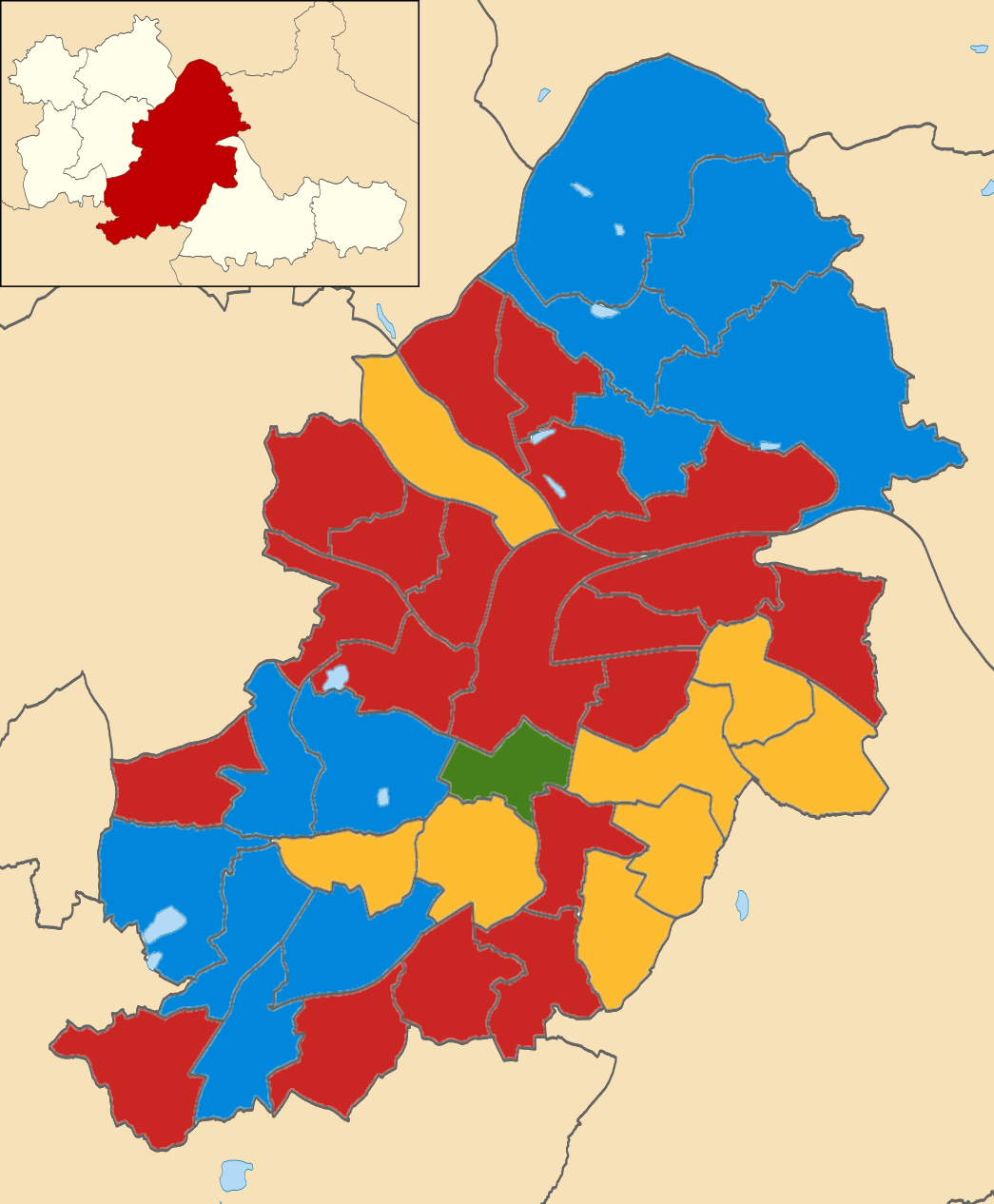 Results of the 2010 local elections in Birmingham Colours: Conservative Labour Liberal Democrat Respect